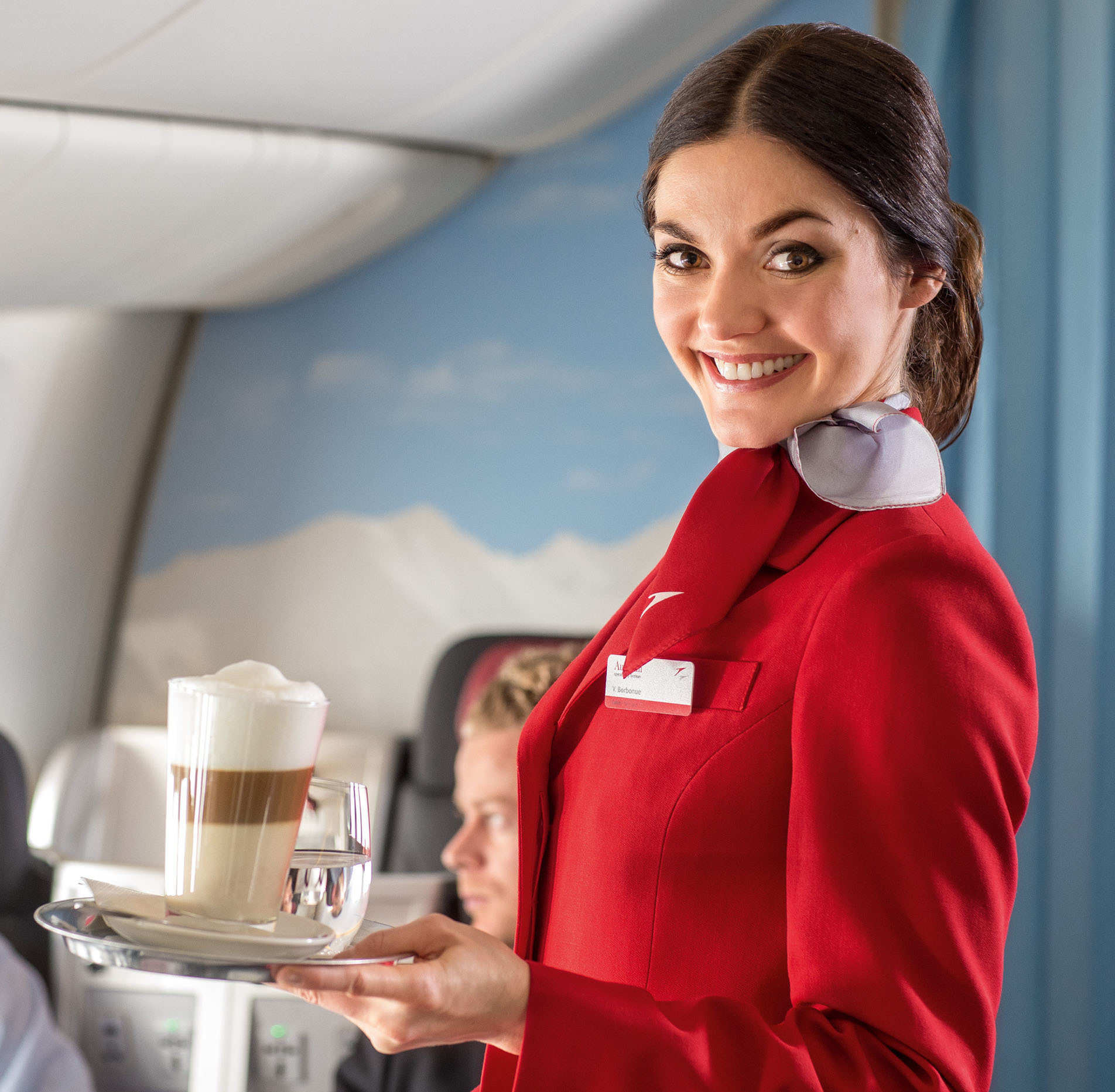 An Austrian Airlines flight attendant serving refreshments to passengers.